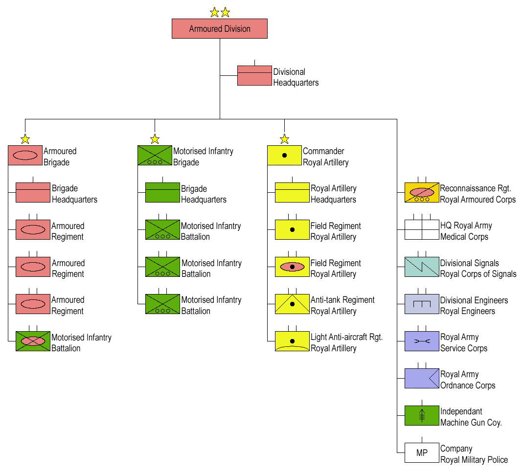 Great Britain World War II Armoured Division Structure 1944